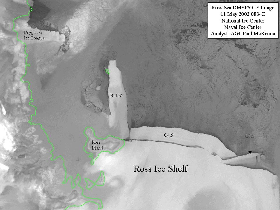 US NOAA / Navy image of Iceberg C-19 calving off from Ross Ice Shelf on 11 March 2002. Image from Defense Meteorological Satellite Program (DMSP).